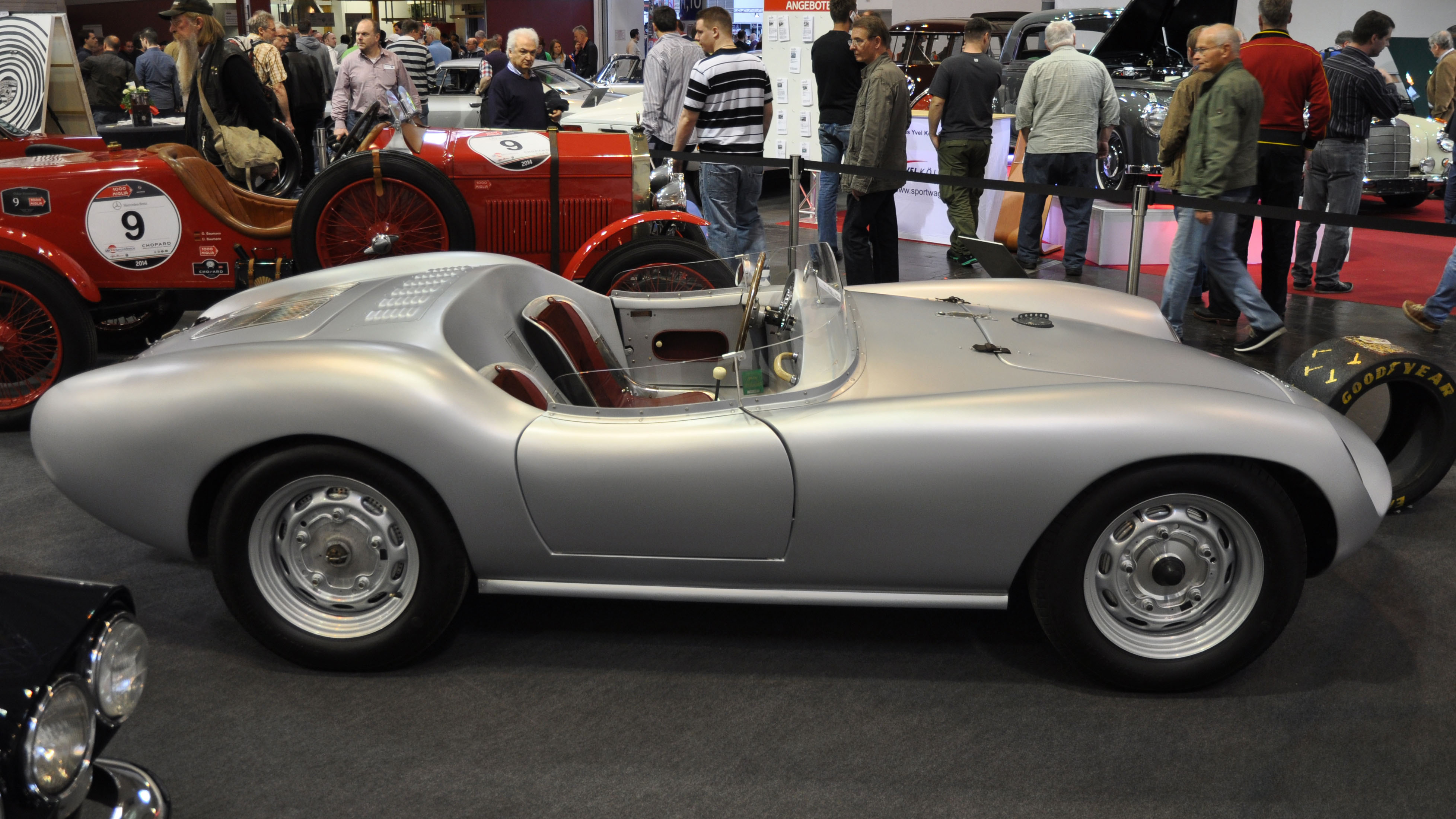 Devin D Porsche Spider (1957) at the Technoclassica 2015, Essen